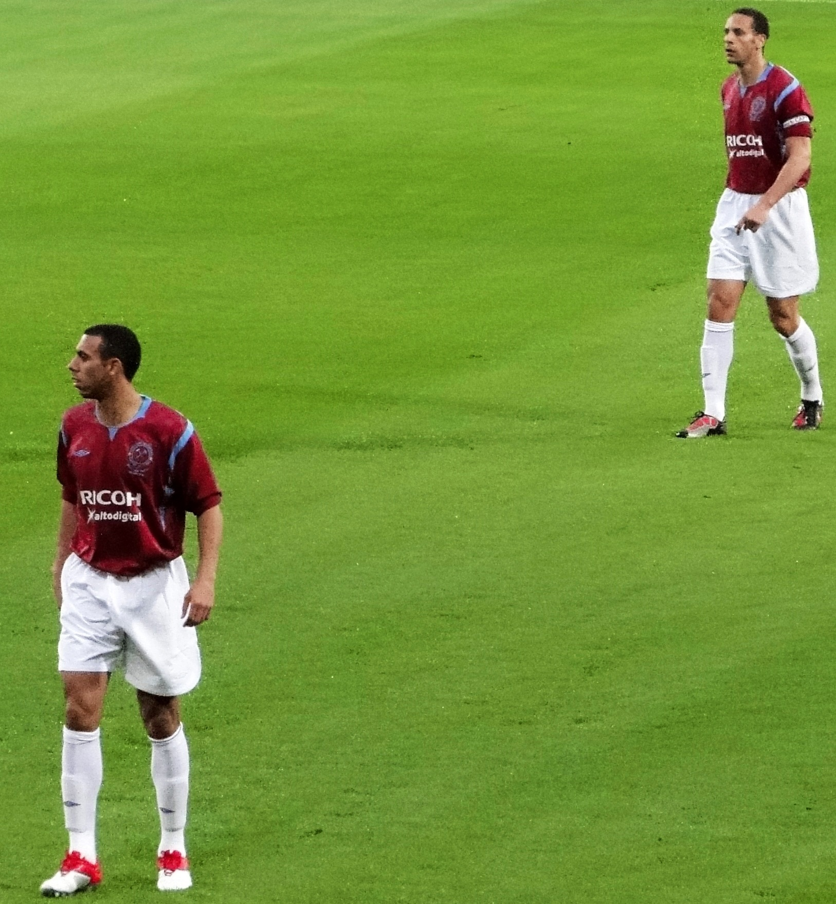 Brothers Anton and Rio Ferdinand playing for West Ham in a testimonial game for Tony Carr at The Boleyn Ground, 2010.